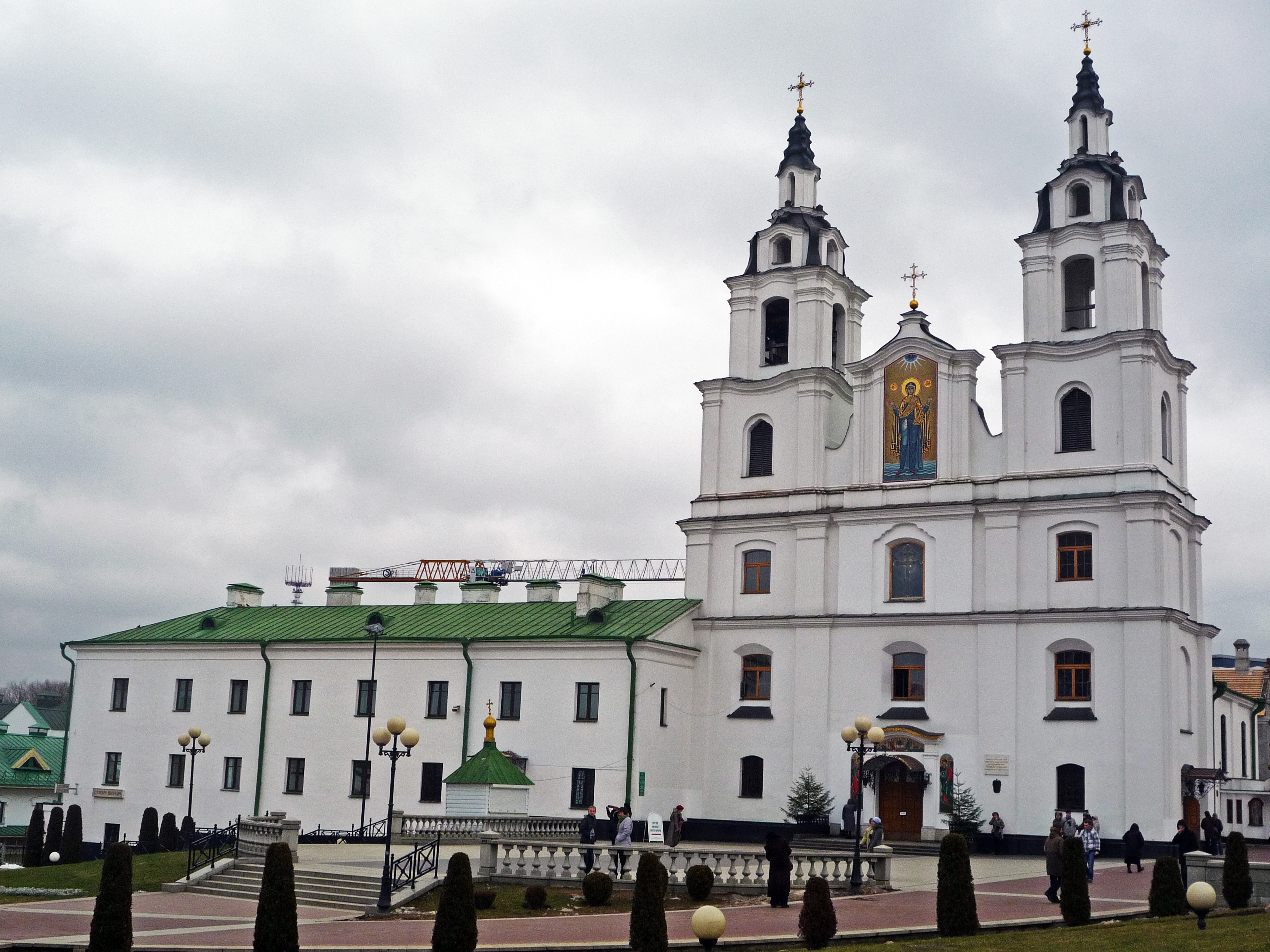 Holy Spirit Cathedral, Minsk